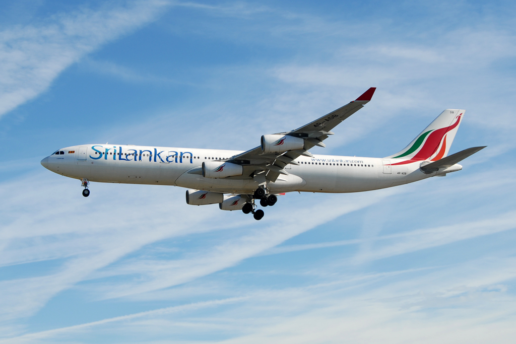 4R-ADB Airbus A340-311 msn 033 operated by SriLankan Airlines and photographed on short finals for 27R at London Heathrow (LHR/EGLL).